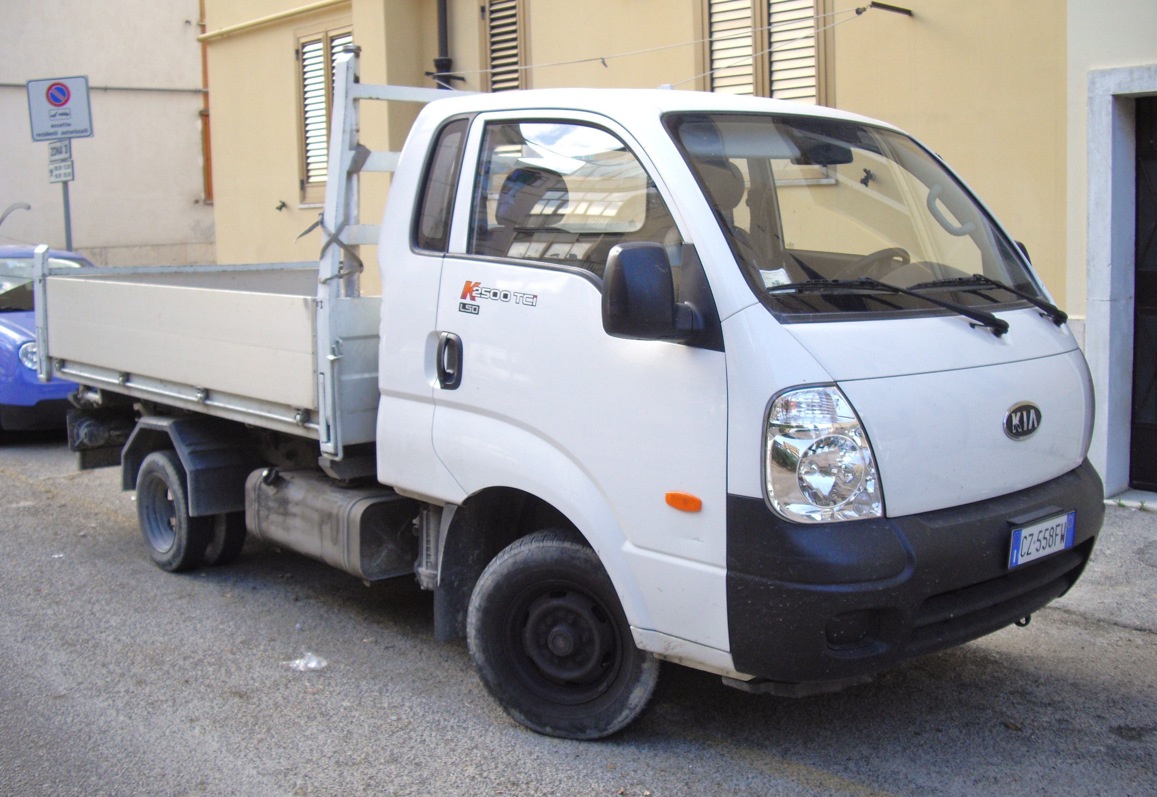 Kia K2500 L50 TCI